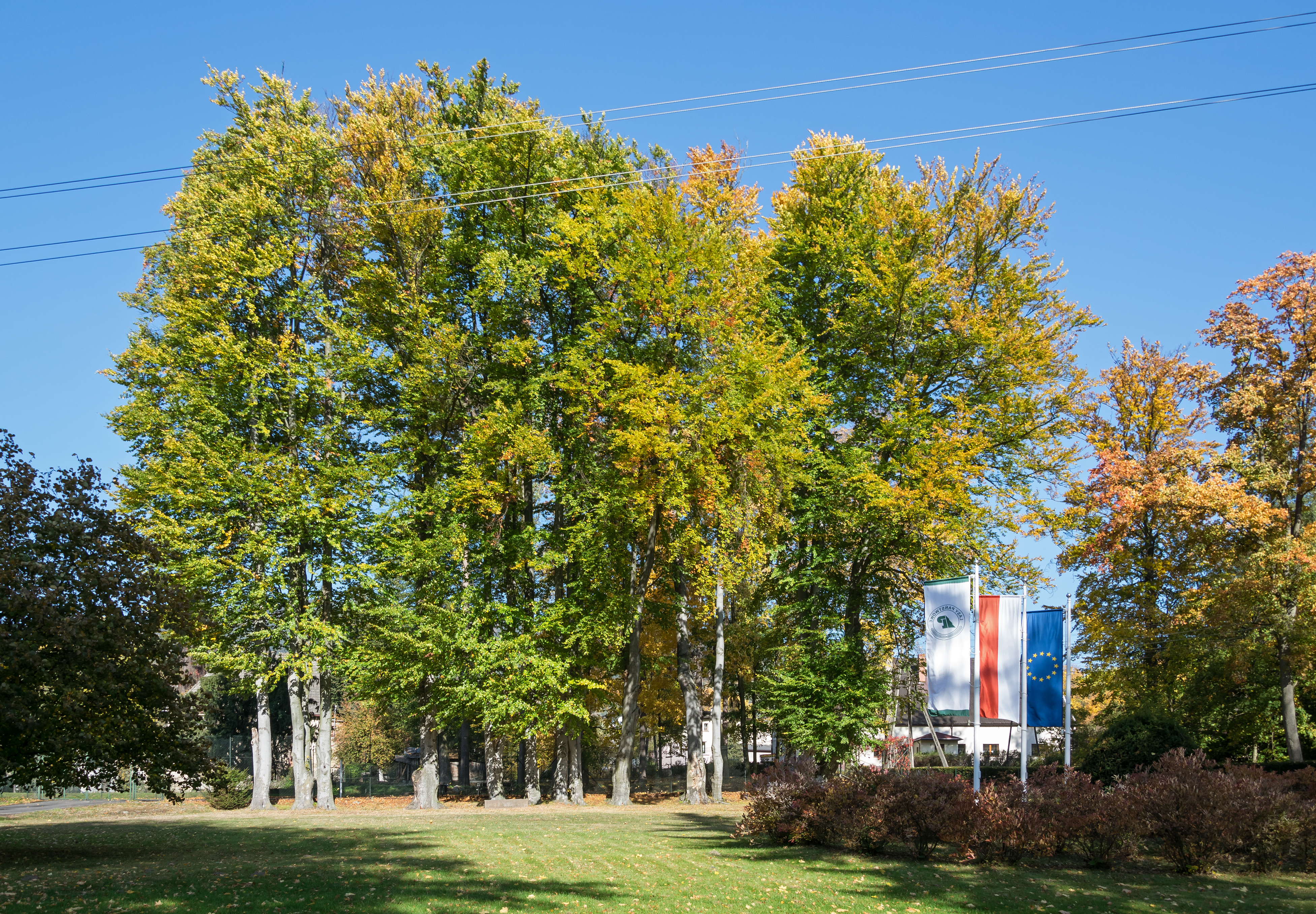 Park in Jugów